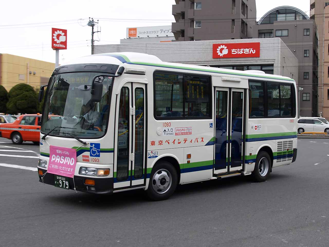 Tokyo Bay City Kotsu route 7 (between Shin-Urayasu and Minami-Gyotoku via Urayasu station). Model: Isuzu Journey J (BDG-RX6JFBJ, wheelchair lift equipped) License plate: CBN200 KA*979 Place: Minami-Gyotoku station: Ichikawa city, Chiba Japan